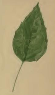 Stainton’s Natural History of the Tineina (1855–1873): Mompha terminella a leaf of Circaea lutetiana mined by larva